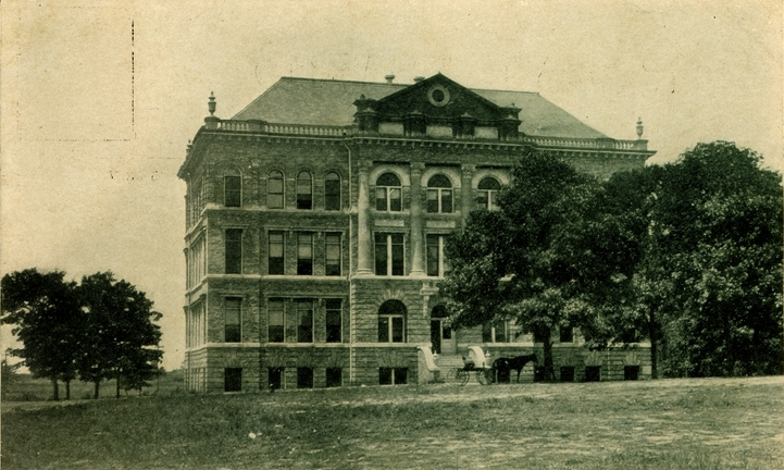 Montgomery Hall in Starkville, Mississippi